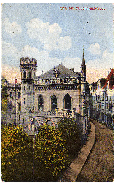 Vintage picture postcard showing the Little Guild building in Riga, Latvia